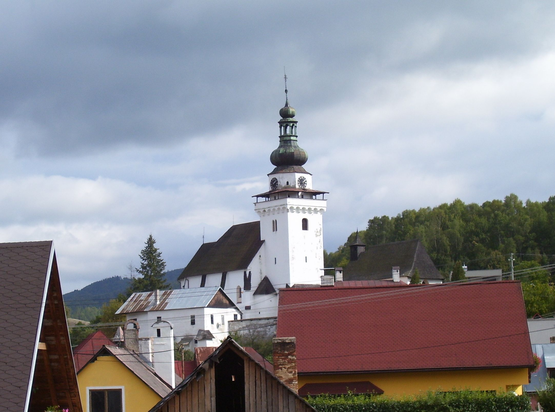 Photo of Banská Belá (Slovakia) on 20.09.2008. The Saint John evangelist Roman Catholic church can be seen in the centre of the picture.